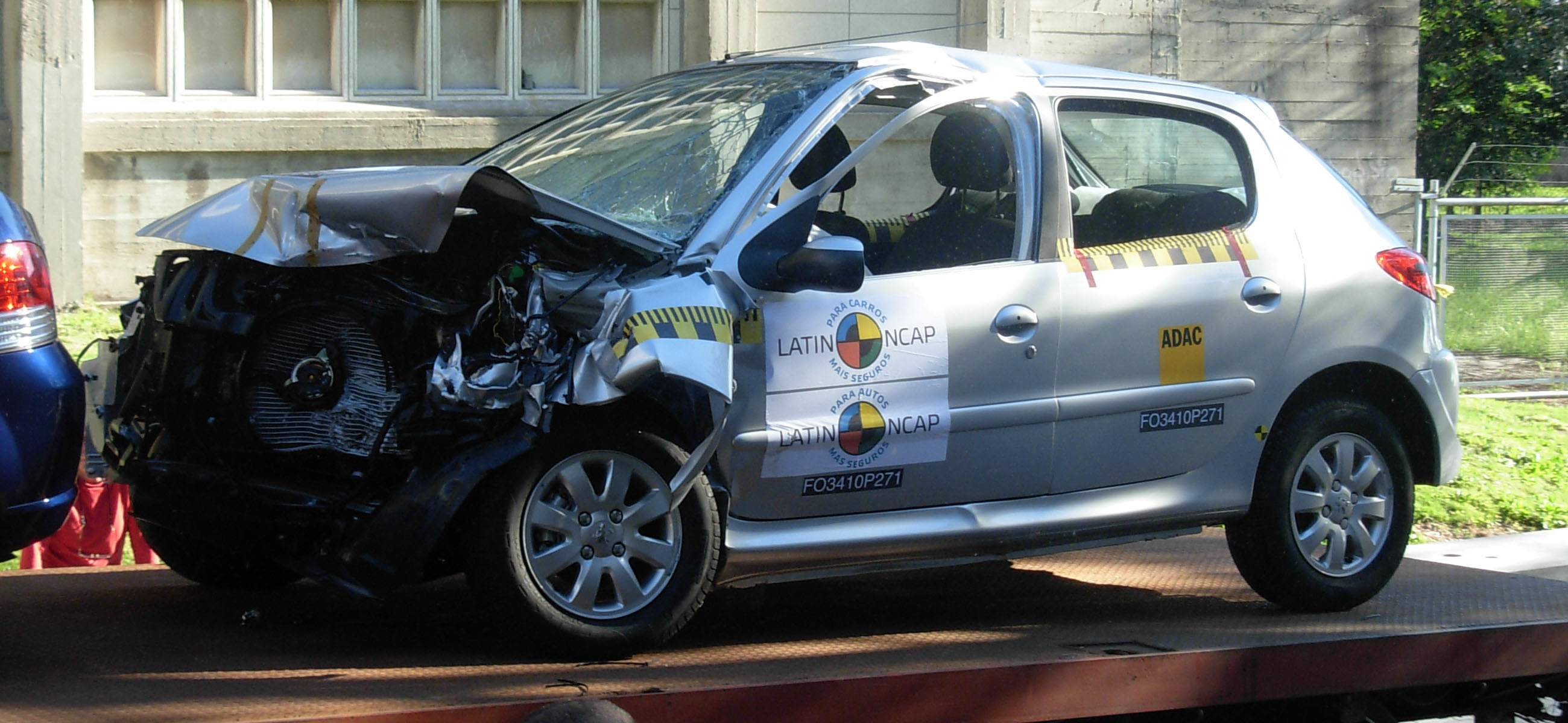 Peugeot 207 Compact car crashed by the LatinNCAP in 2010, pictured at the Facultad de Ingeniería de la Universidad de la República in Montevideo, Uruguay.